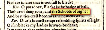 Small text section out of Love's Labour's Lost (IV,3)